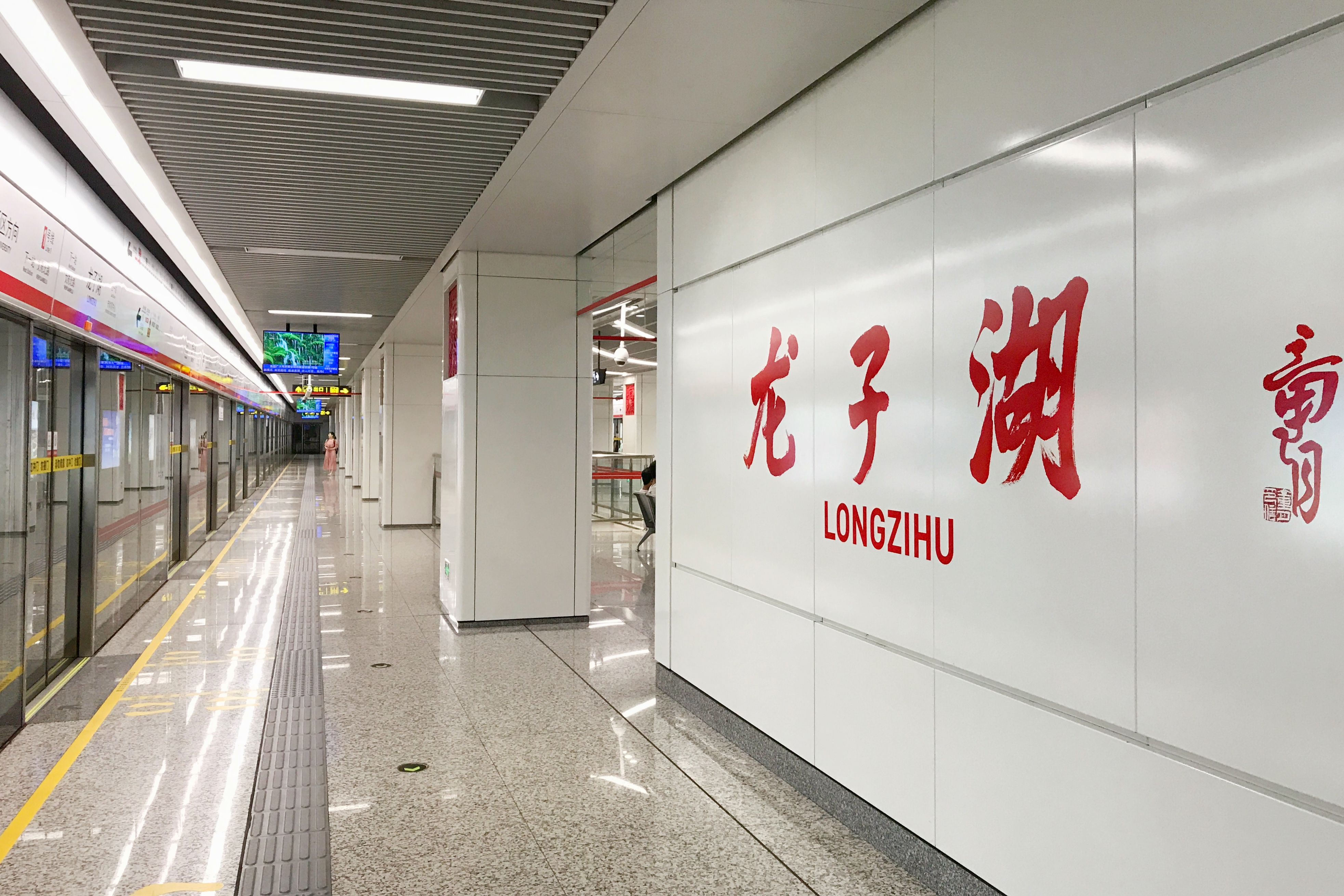 Platforms of Zhengzhou Metro Longzihu Station